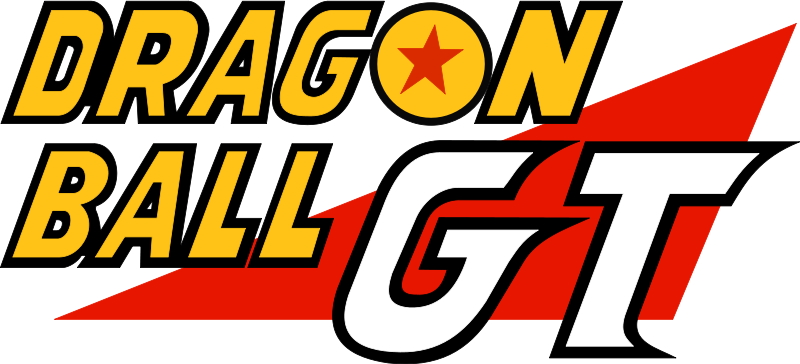 The logo exactly as used in the show.